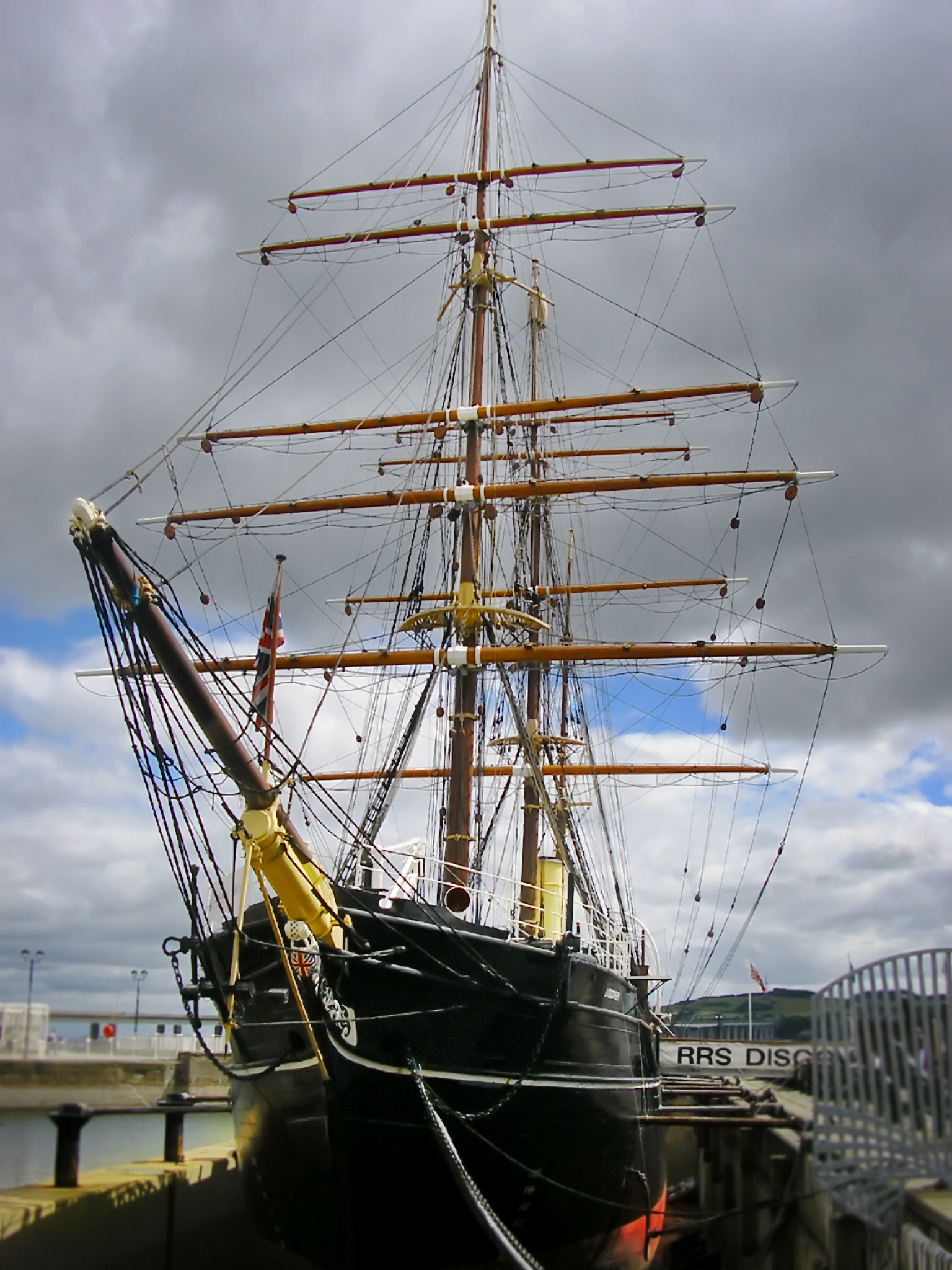 RRS Discovery